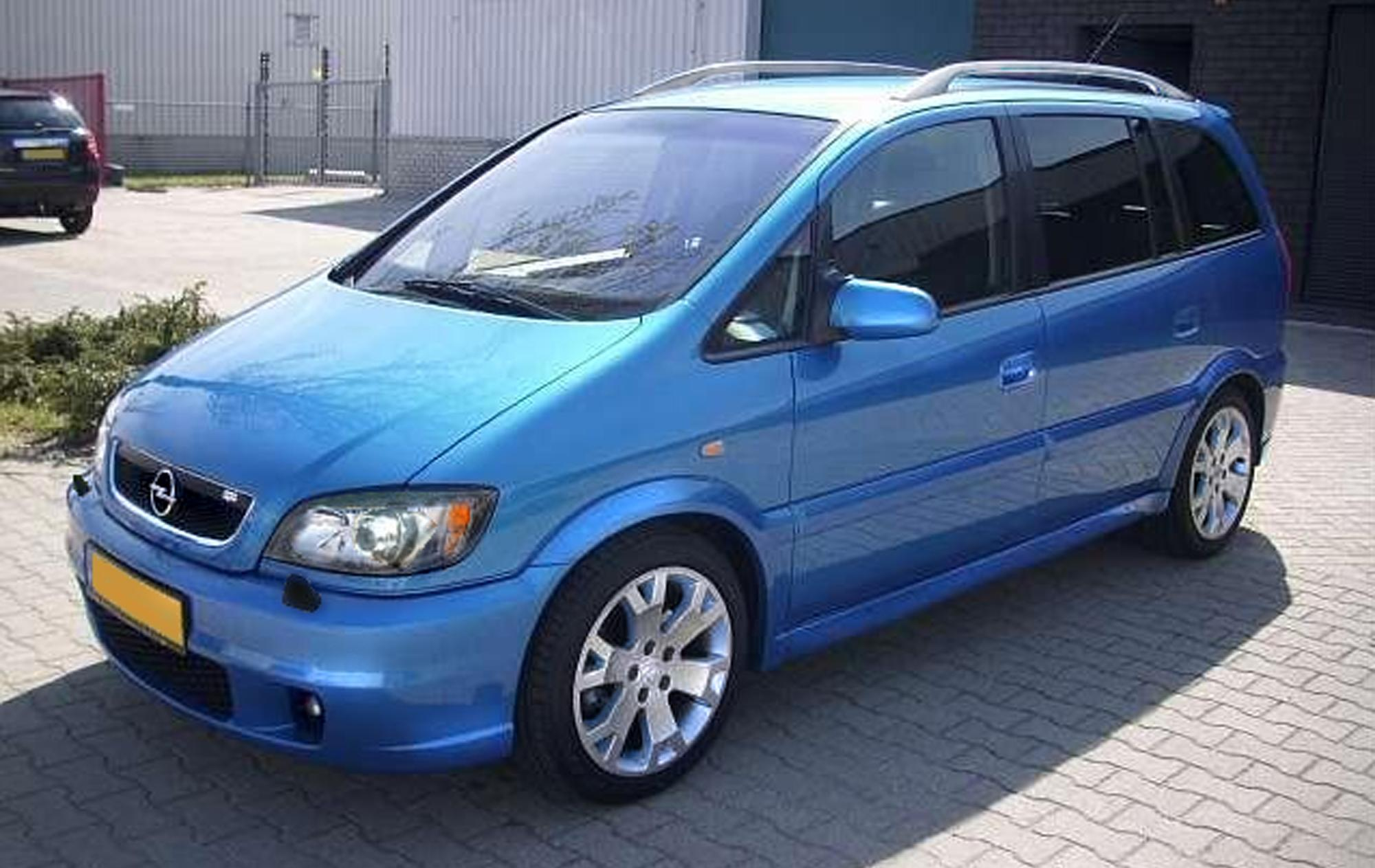 a Zafira Monocab